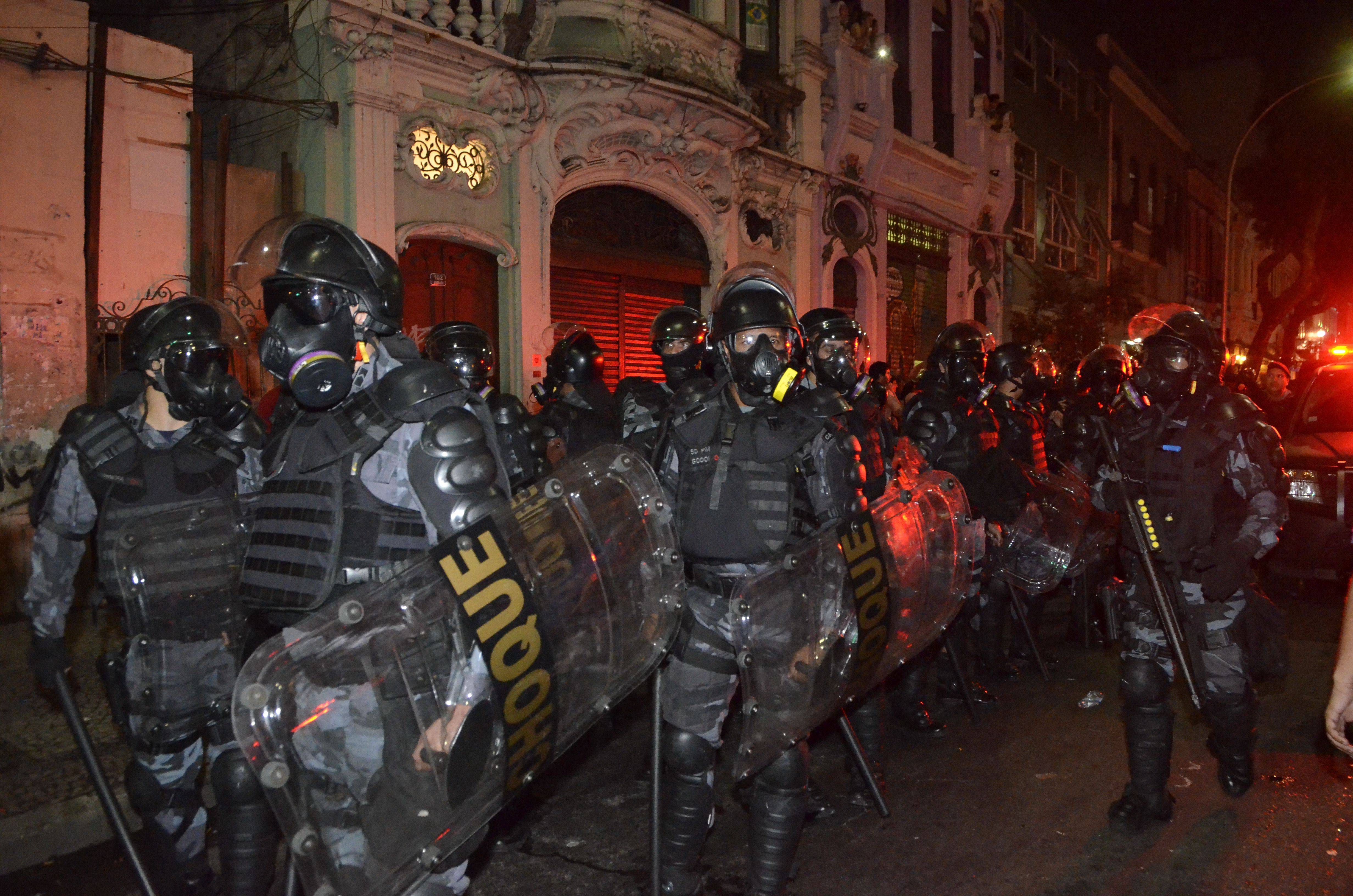 Protest anti-Cup in Rio